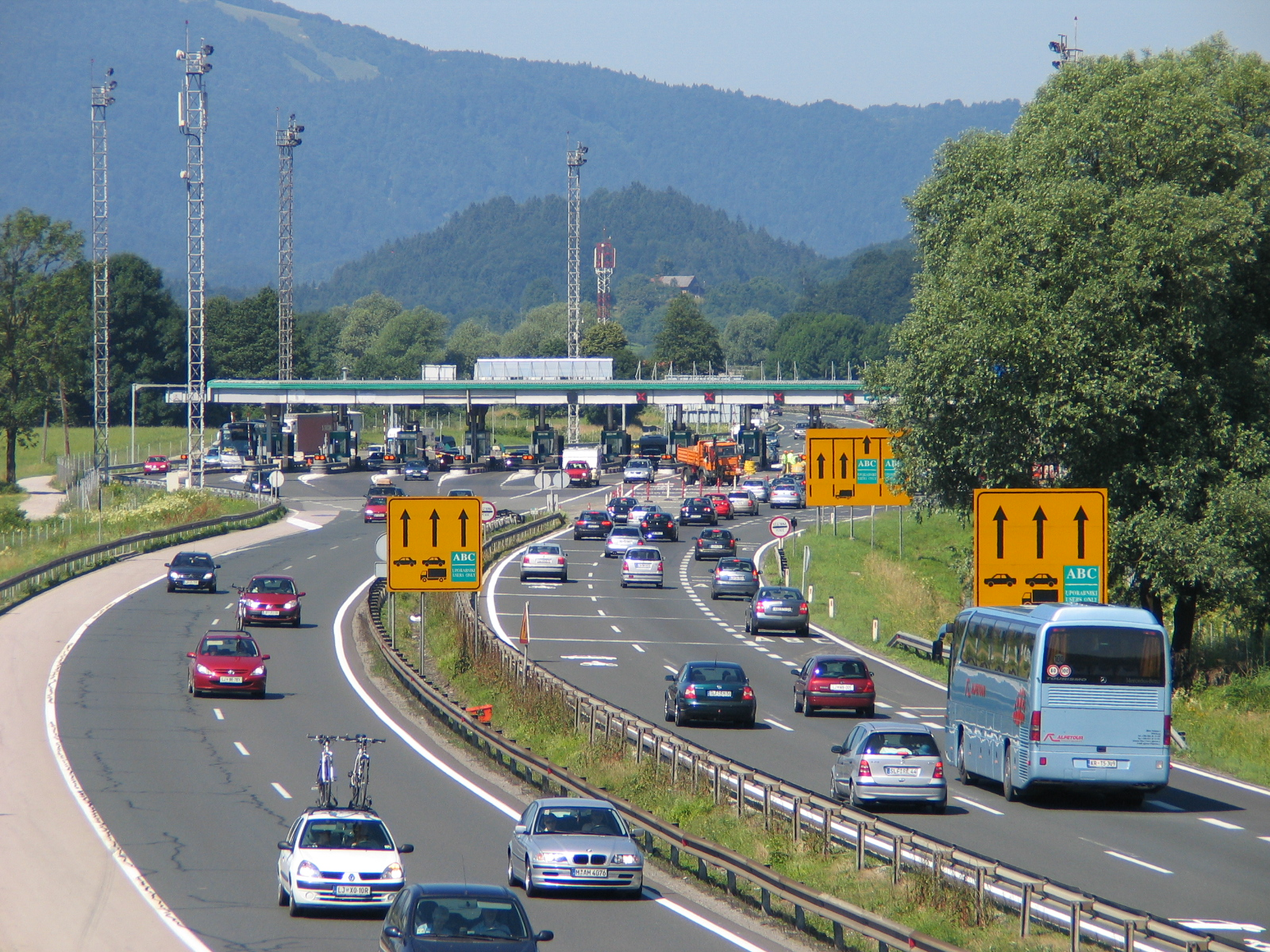 "Log" toll station on the A1 motorway (Slovenia), a week before the introduction of the vignette system. The workers in the middle are setting the free passages for cars. Trucks will use the far right lanes currently reserved for users of the ABC system (automatic cashless toll payment).